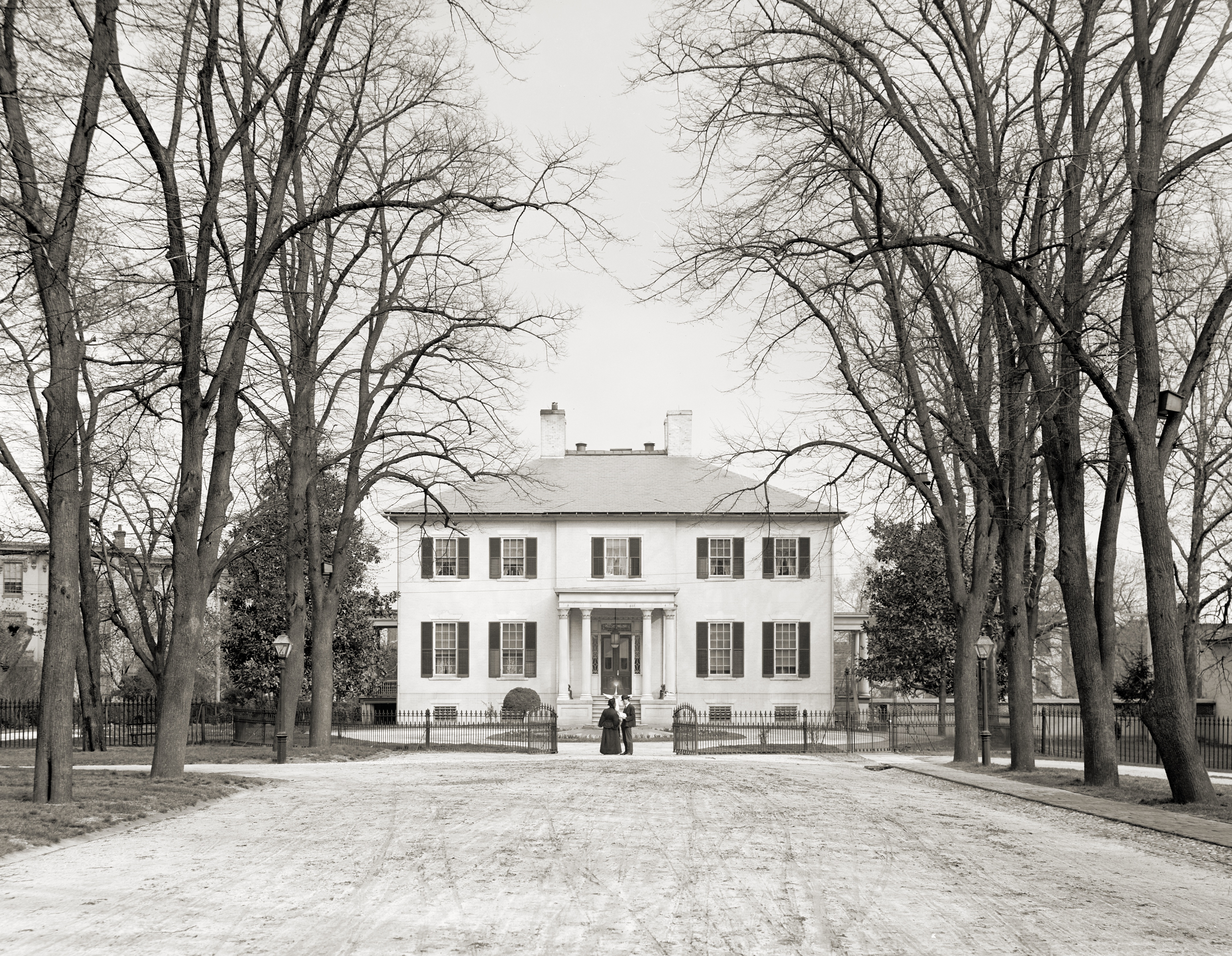 Published 1905. TITLE: 018411 GOVERNOR'S MANSION, RICHMOND, VA. Created by the Detroit Publishing Company (photographer not recorded)